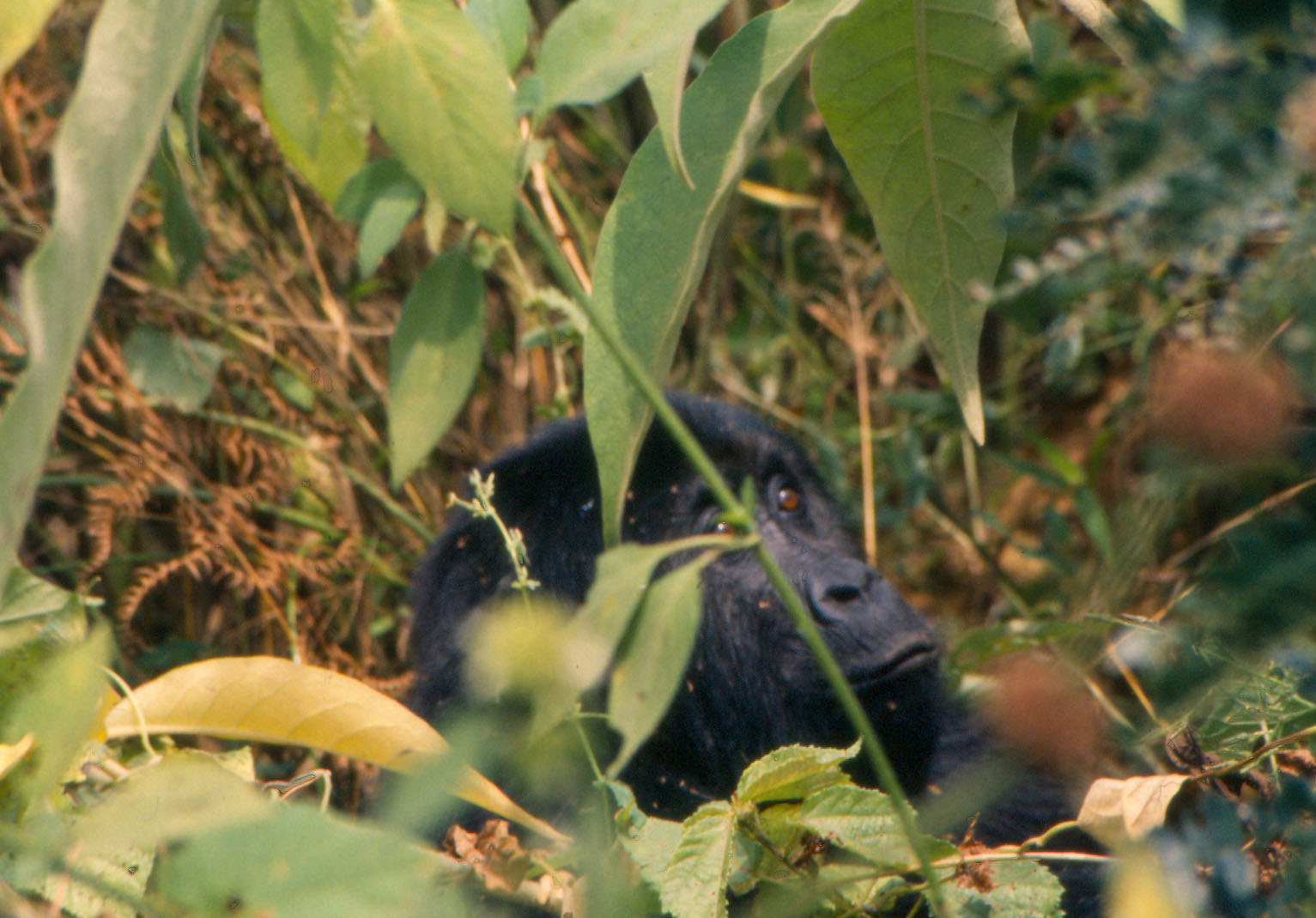 The Mountain Gorilla (Gorilla beringei beringei) is one of the two subspecies of the Eastern Gorilla. There are two populations, one is found in the Virunga volcanic mountains of Central Africa, the other in Uganda's Bwindi Impenetrable National Park. this photograph was taken in Virunga National Park in the eastern Democratic Republic of Congo (DRC). The Mountain Gorilla has longer and darker hair than other gorilla species, allowing it to live in hot or cold weather and travel into areas where temperatures drop below freezing point. Adult males are called silverbacks because a saddle of gray or silver-colored hair develops on their backs with age. The Mountain Gorilla is primarily terrestrial and quadrupedal. Digitized slide.